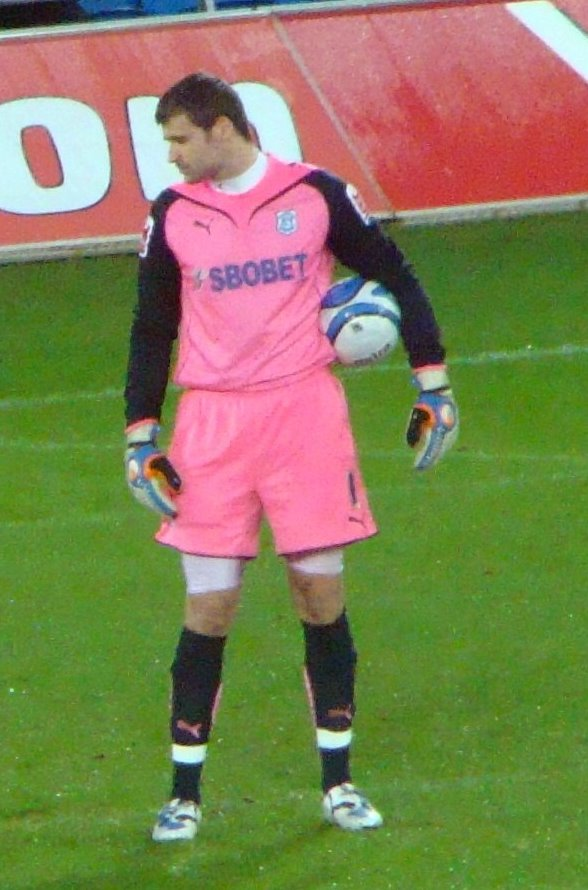 05/12/09 Cardiff V Preston, Cardiff City Stadium, Cardiff, Wales